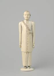 This small ivory statue crafted by an anonymous sculpture is a recent acquisition by the Rijks Museum, Natherlands and is believed to depict Nicolas Dias Abeysinghe Amarasekera, the most influential Maha Mudaliyar (Native Official) in Dutch Ceylon. සිංහල: මහා මුදලි නිකලස් ඩයස් අබේසිංහ අමරසේකර (8 මැයි 1719 - 10 මැයි 1794) යනු ලාංකික ලන්දේසි යටත්විජිත පරිපාලකවරයෙකි.